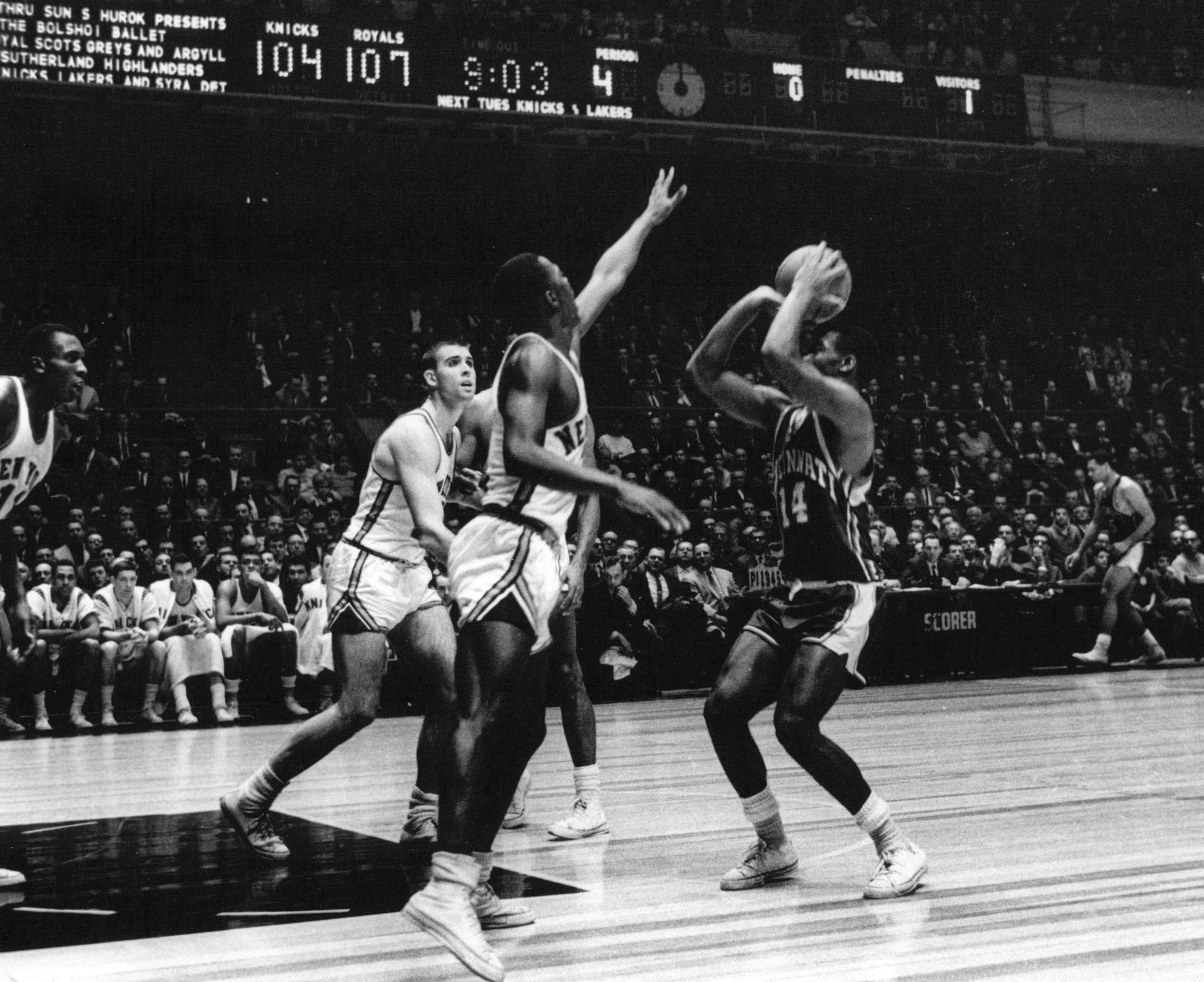 Professional basketball player Oscar Robertson (with ball)